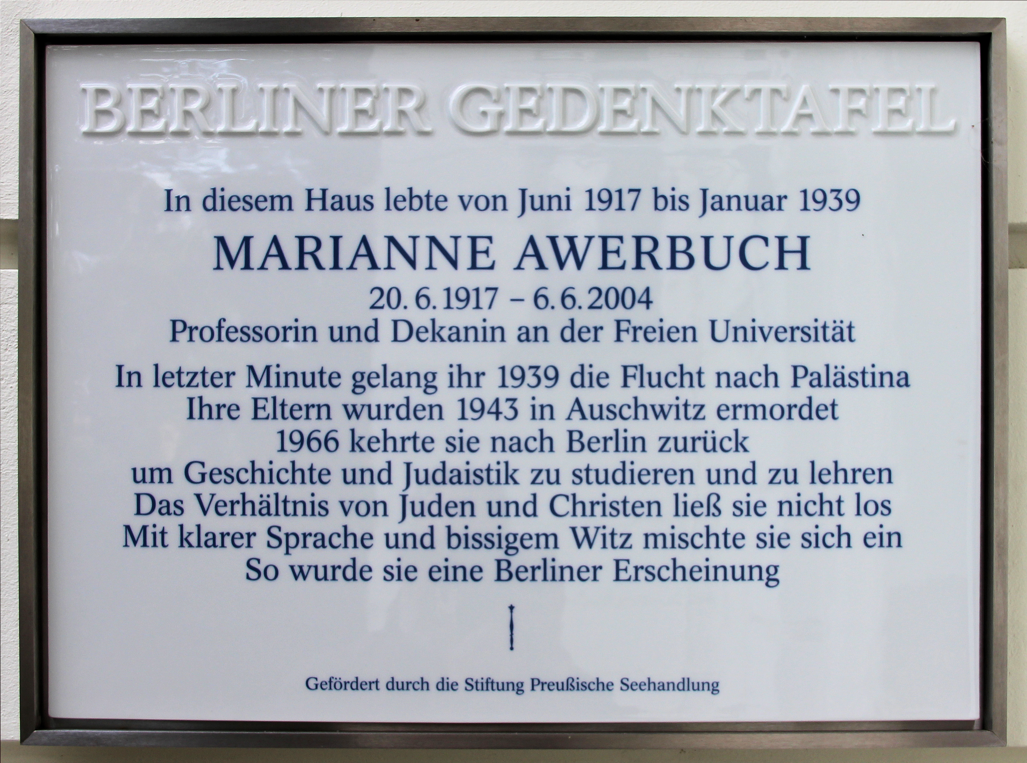 Berlin memorial plaque, Marianne Awerbuch, Holsteiner Ufer 18-20, Berlin-Hansaviertel, Germany